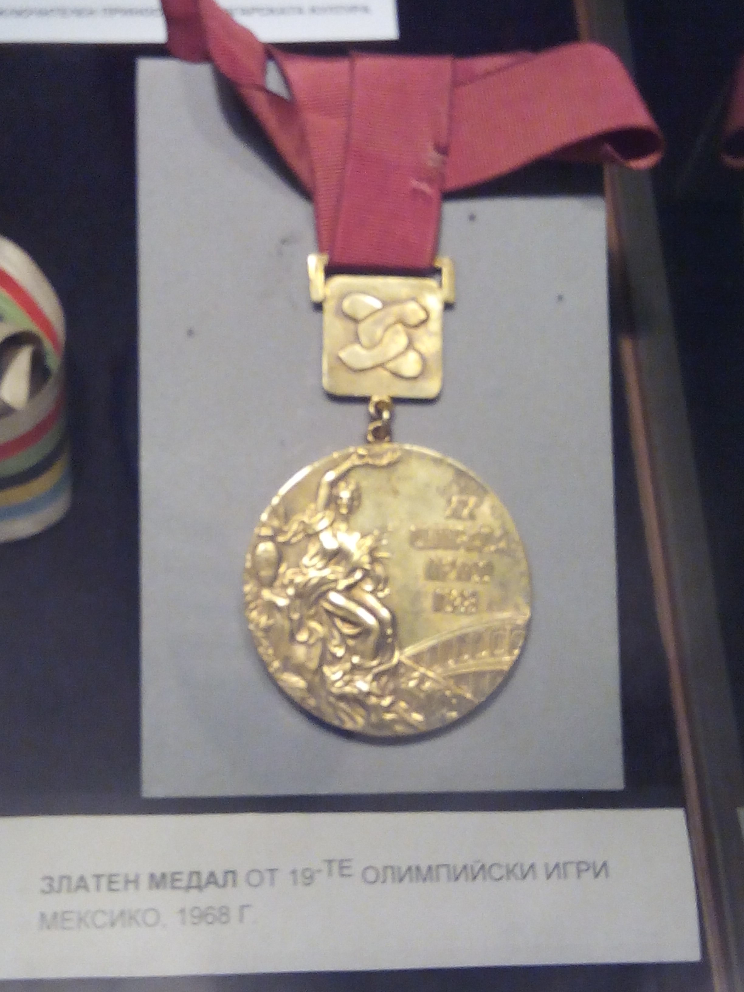 Olympic medal of wrestler Boyan Radev by Summer olympic games in Mexico city 1968